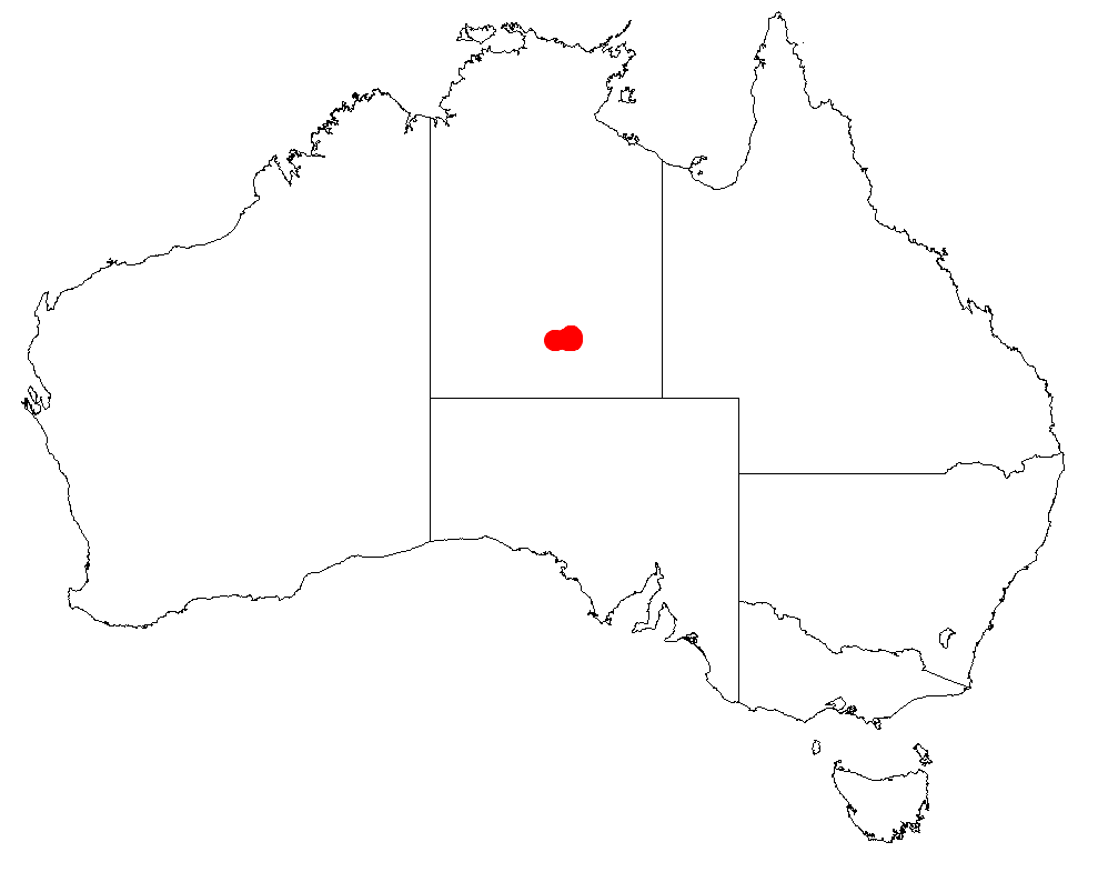 Acacia undoolyana occurrence data from Australasia Virtual Herbarium downloaded from on 8 December 2018